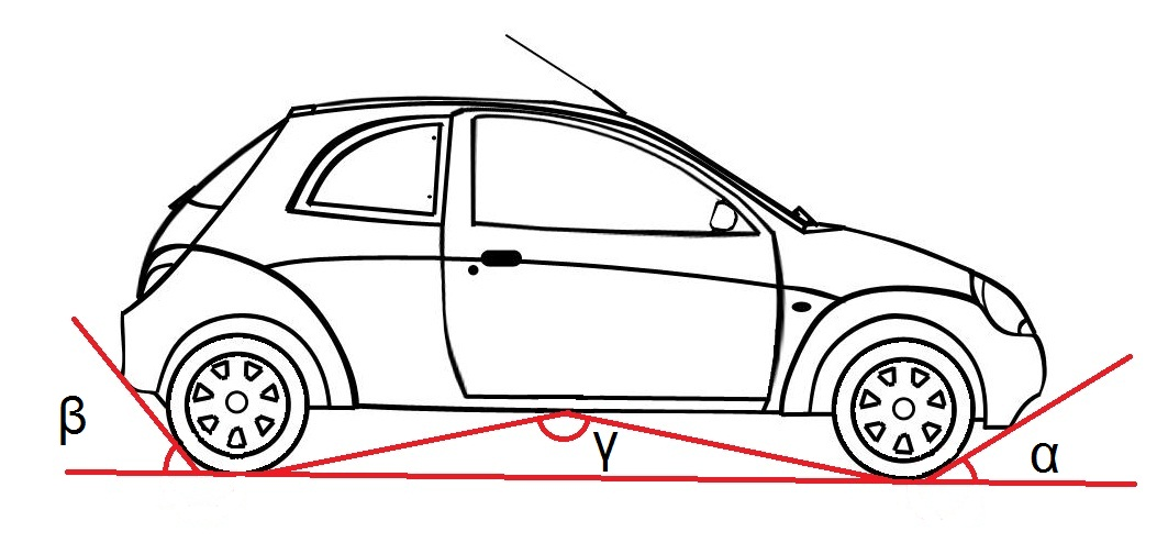 Angles of a vehicle.